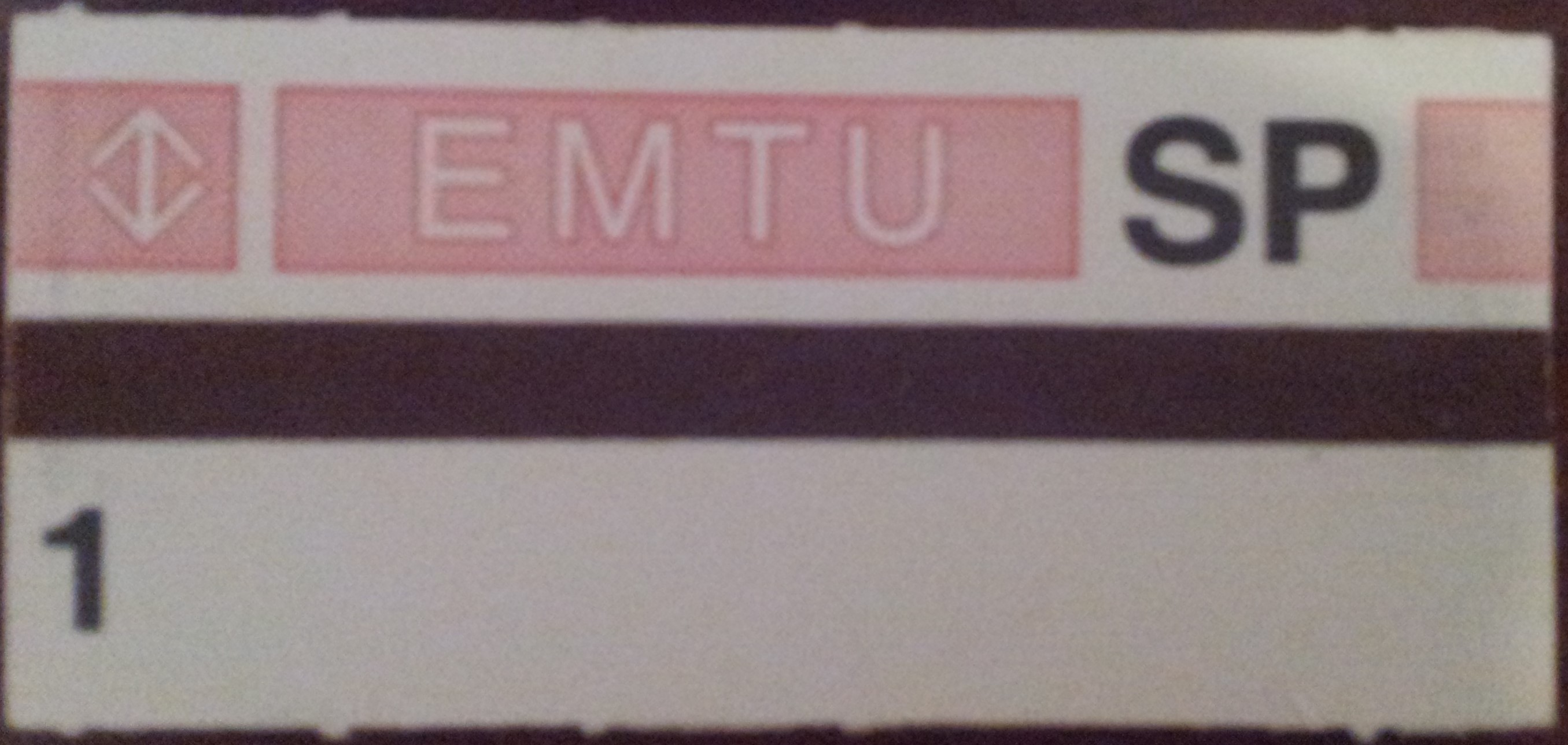 An EMTU single-ride magnetic ticket used in São-Mateus Jabaquara Corridor, bought in 2014.